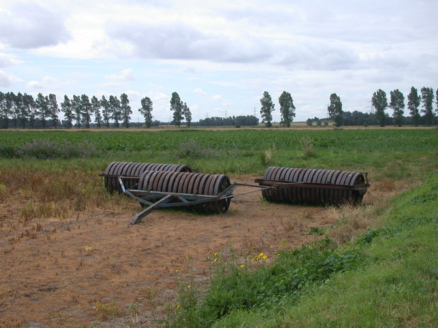 Agricultural Roller in field at Swasedale Farm